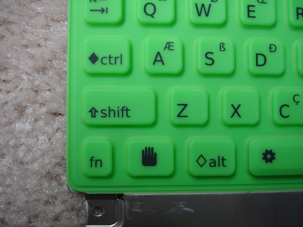 Picture of the OLPC XO-1's innovative keyboard (closeup)